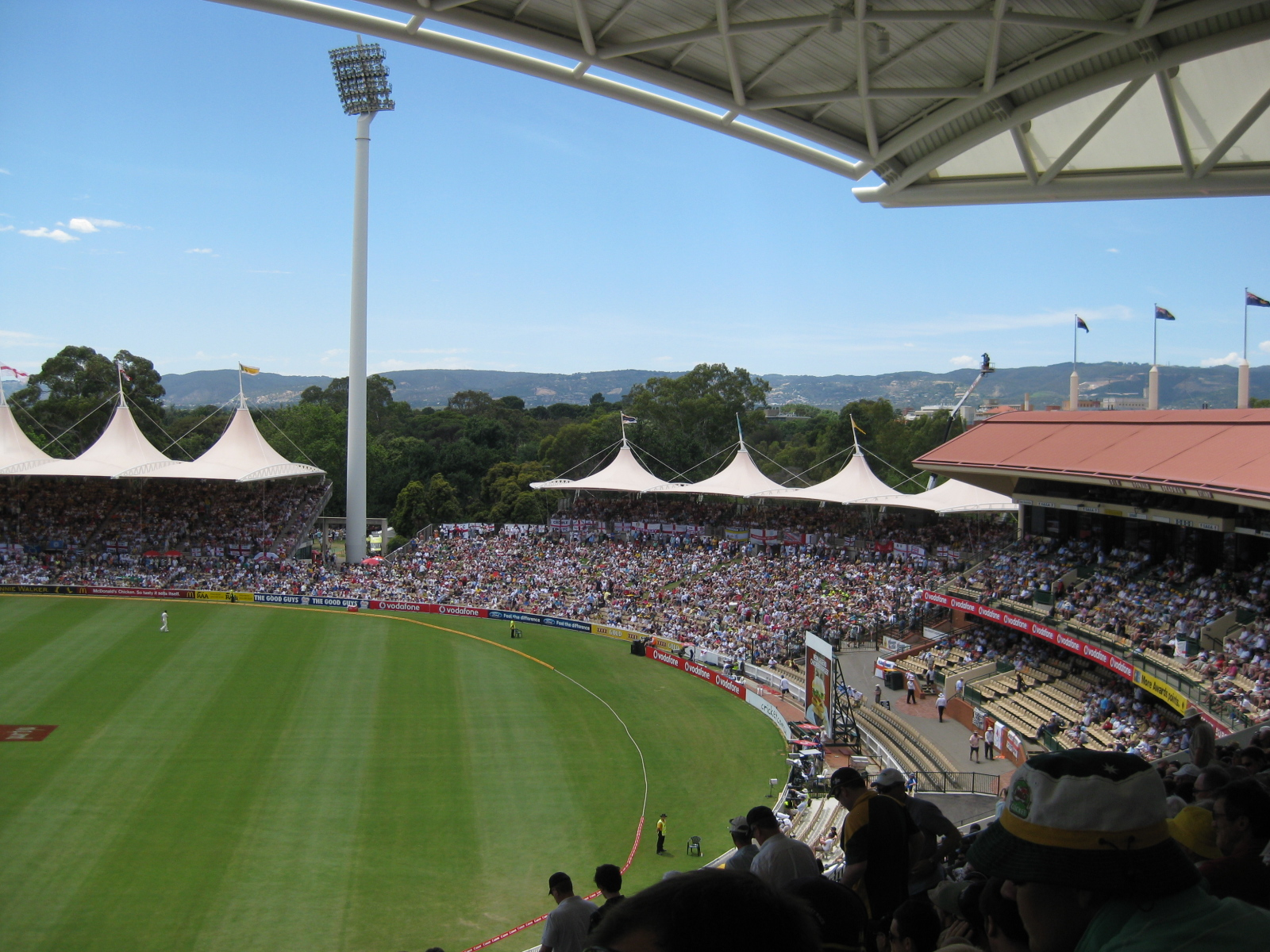 Adelaide Oval looking SE from the new Western Stand, Dec 2010 during the second test of The Ashes